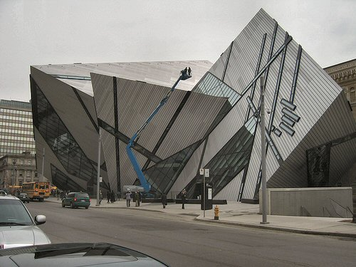 Musée Royal de l'Ontario/Royal Ontario Museum. This building houses the Royal Ontario Museum. It was opened a year ago, to a resounding "meh" from the public, but Conde Nast Traveller magazine has apparently named it one of the best new buildings of the year. I reckon they nicked the design from Storey Hall.